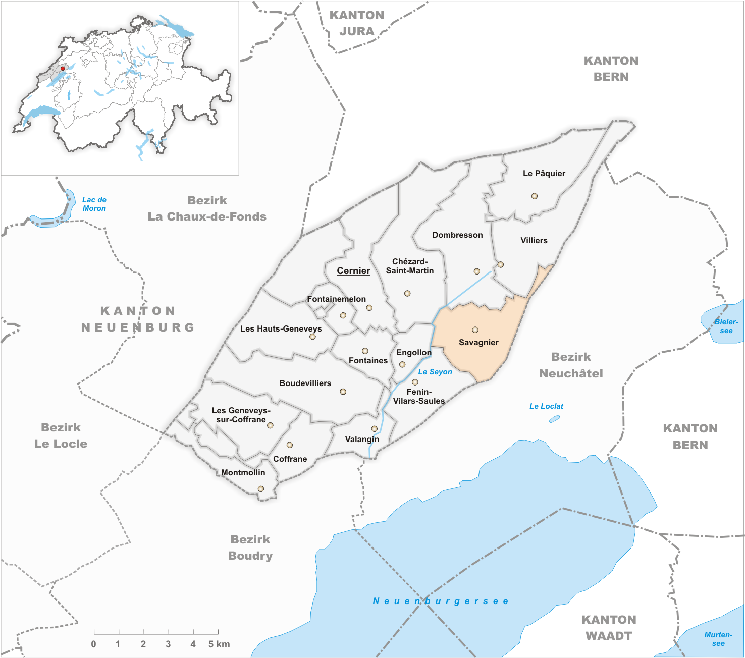 Municipality Savagnier